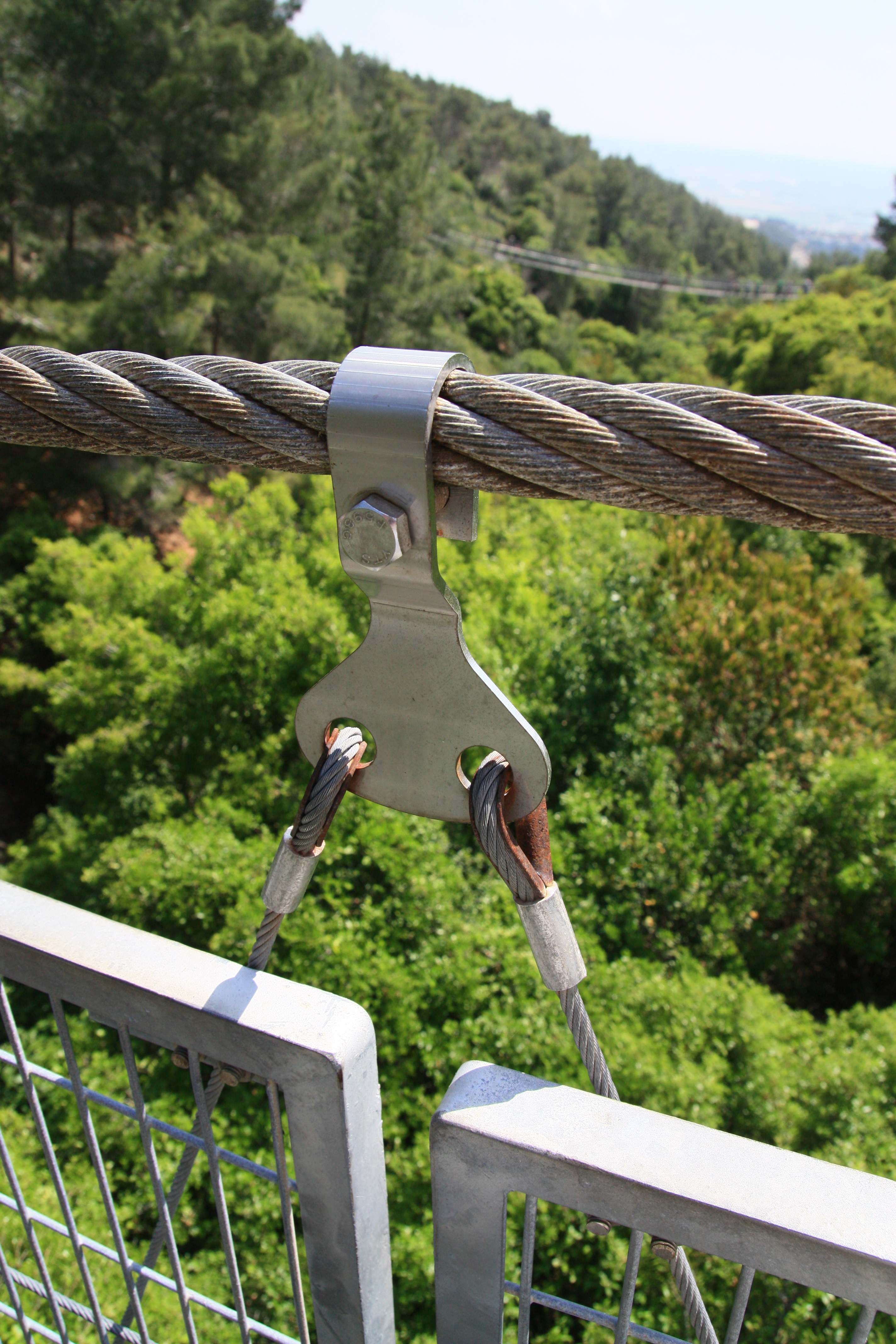 Mount Carmel